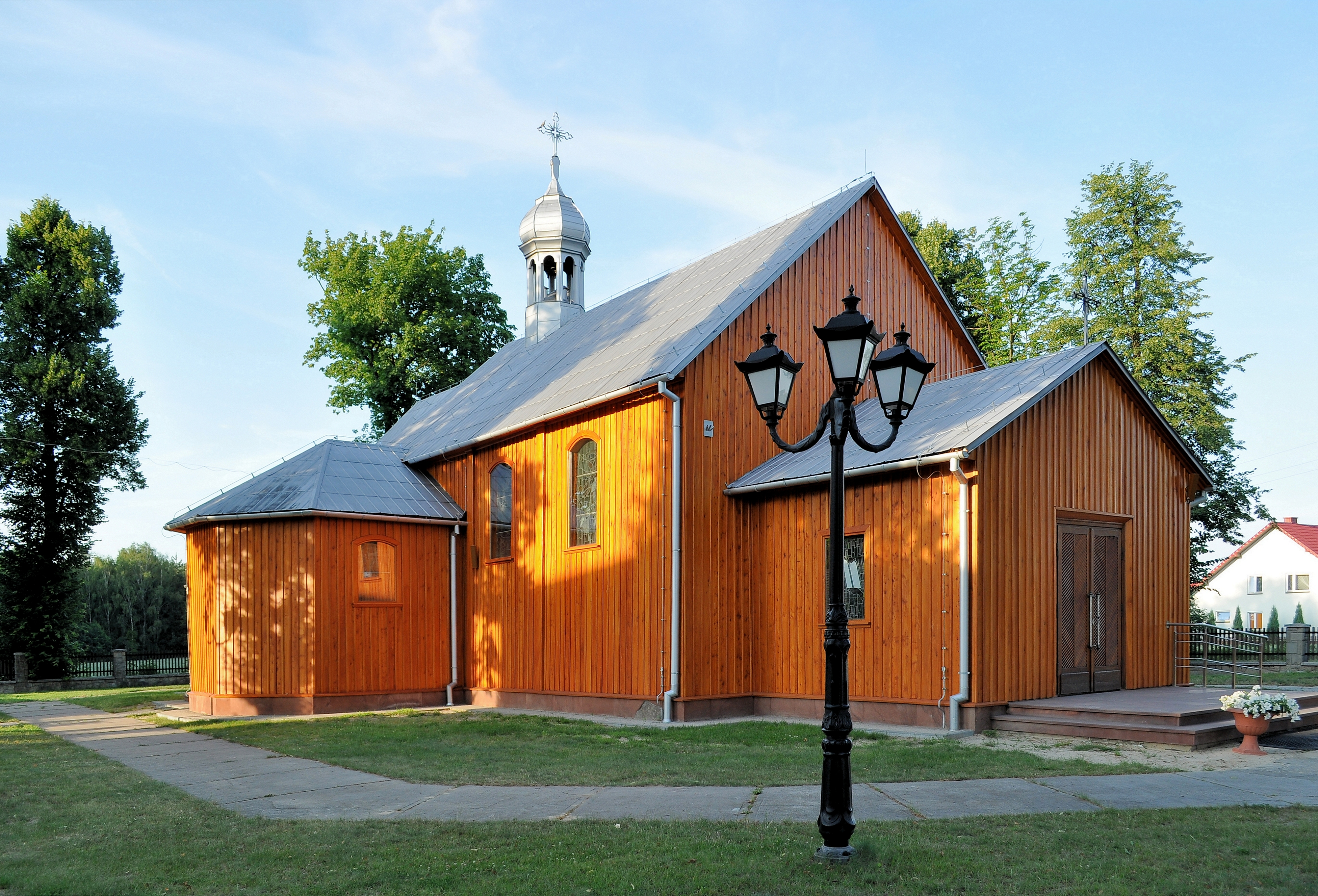 Saint Augustinus church in Jamy, gmina (commune) Wadowice Górne.